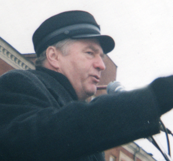 Vladimir Zhirinovsky in Rtishchevo